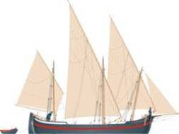 A triple masted bracera from Rovinj, Croatia